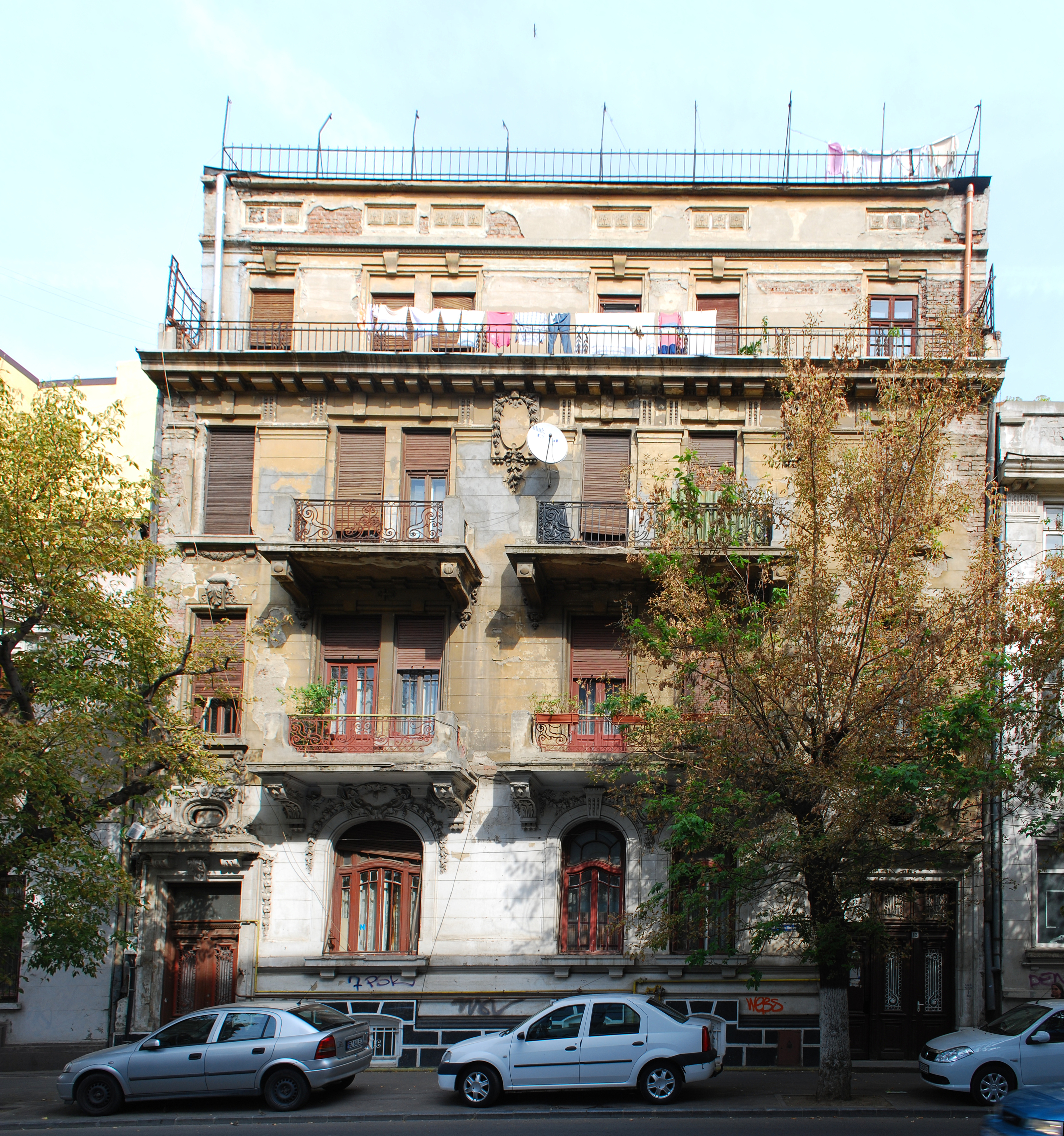 Historic building in Bucharest, Romania, on Hristo Botev 13